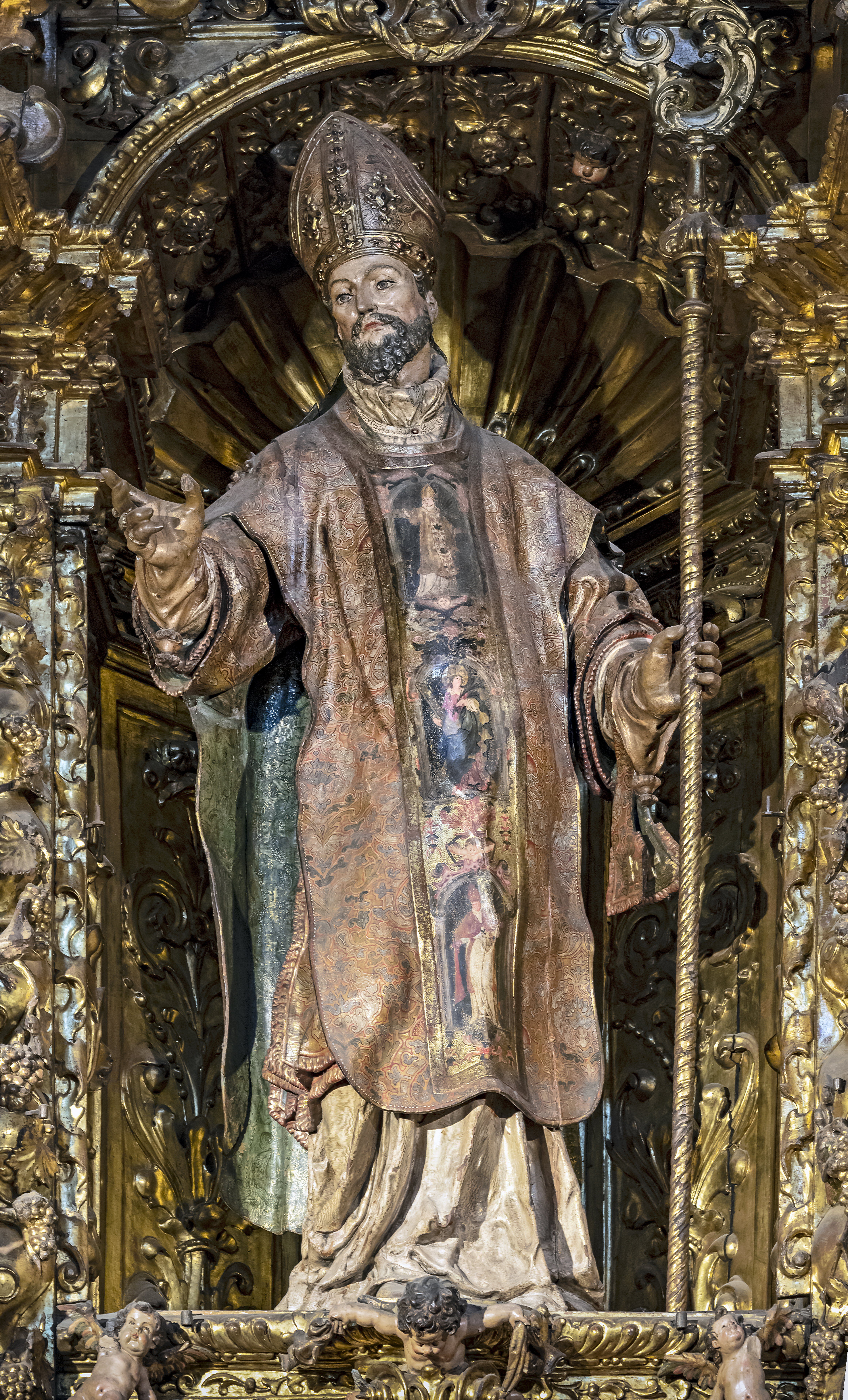 The Cathedral of the Holy Cross and Saint Eulalia in Barcelona. Chapel of Saint Pacian and Sant Francis Xavier. Statue of Saint Pacian, of great quality, dedicated to the one who was bishop of this headquarters is baroque from the year 1688 by Joan Roig (father).